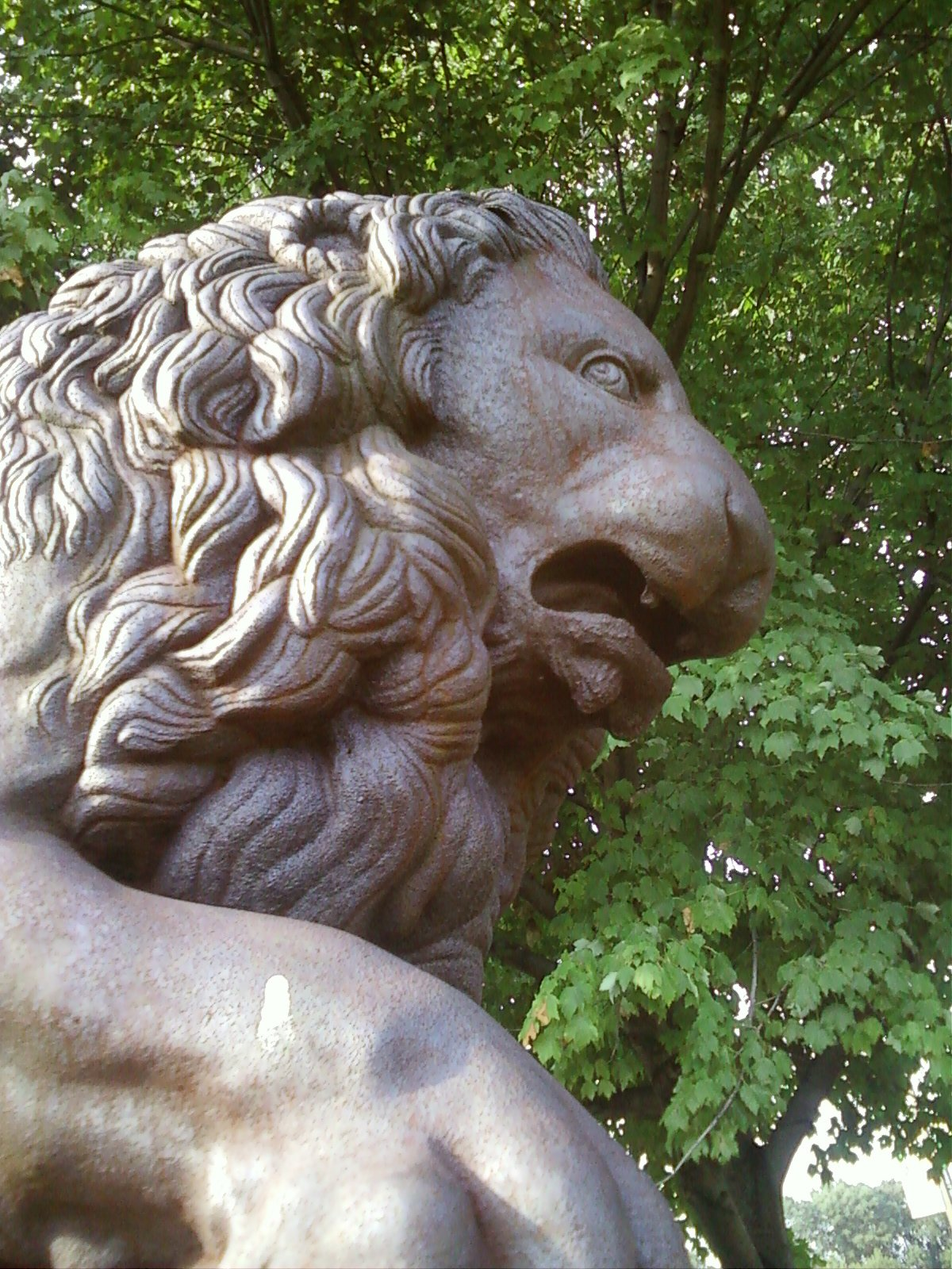 Visit a park today--national, amusement, playground--and make a photo of something that catches your eye.